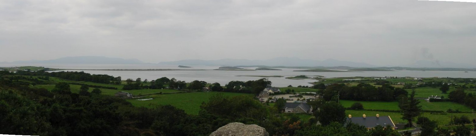 Clew Bay seen from Croagh PatrickLa baie de Westport vue du Croagh Patrick